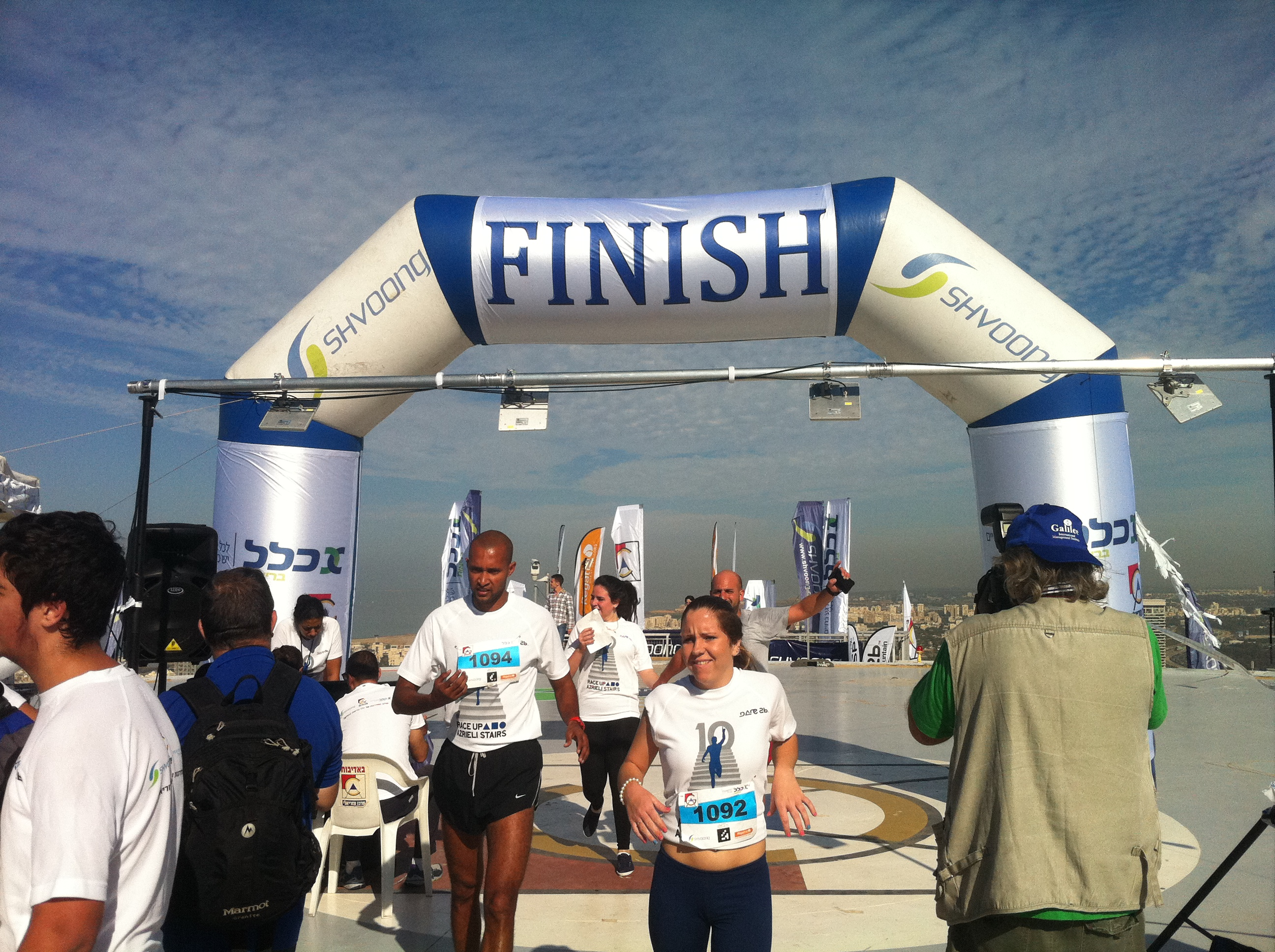 Azrieli Stairs Race